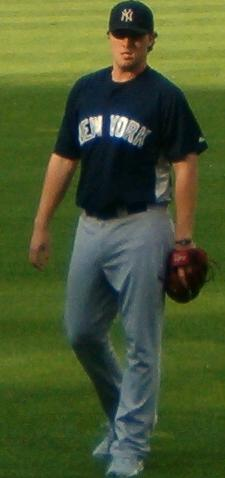 Phil Hughes warming up before a game